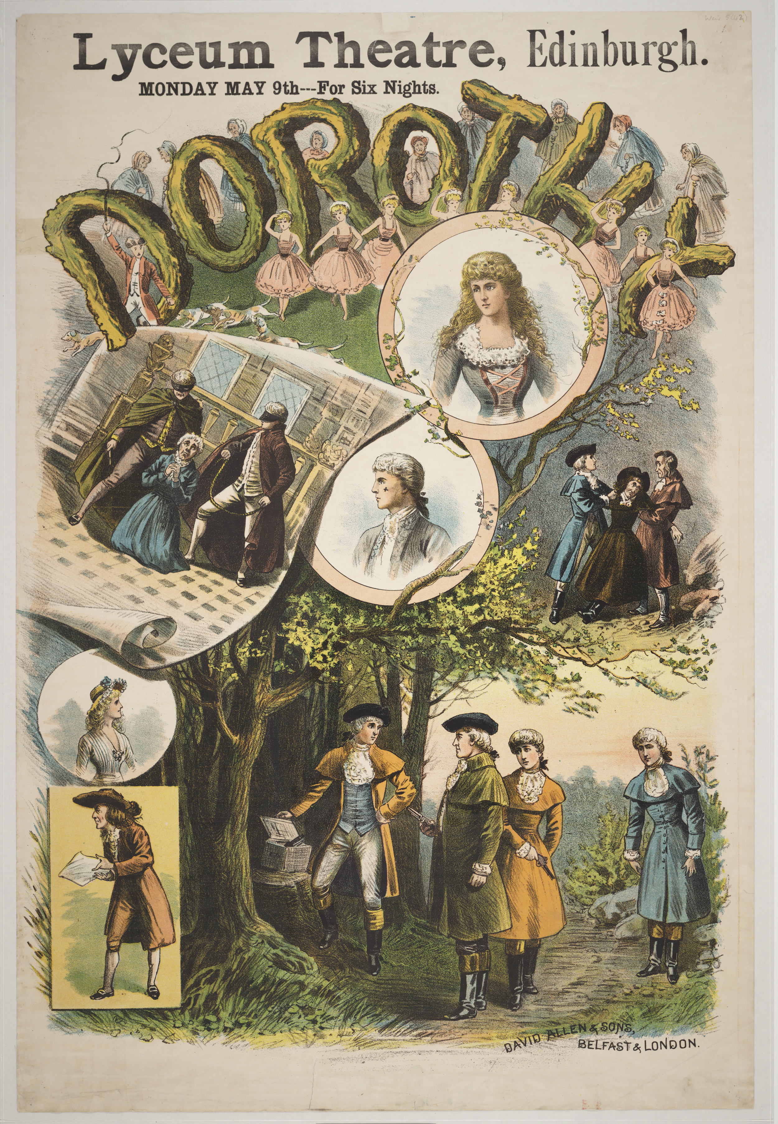 Monday May 9th for six nights. 'Dorothy'. Printed by David Allen & Sons, Belfast & London.